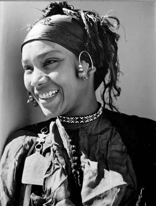 Haratin girl smiling